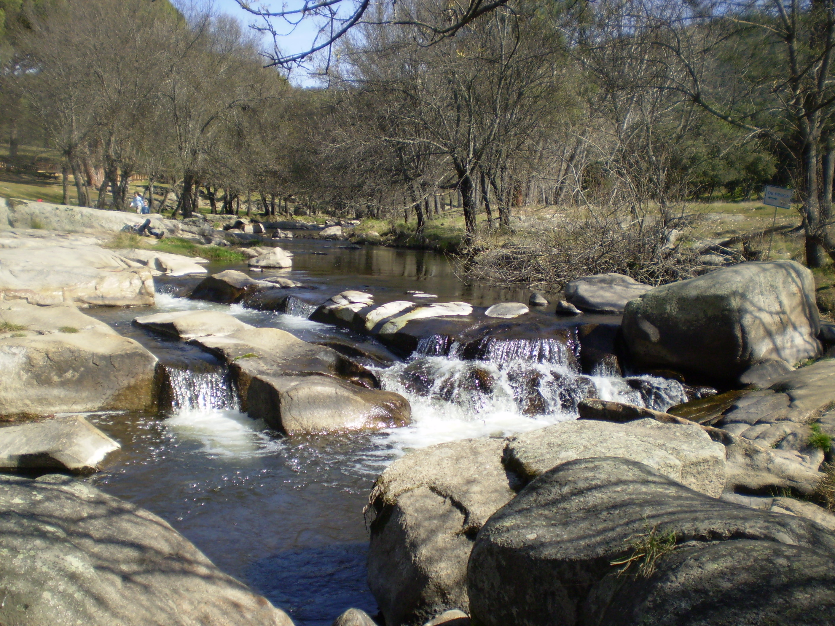 Cofio River. Valdemaqueda. Community of Madrid, Spain